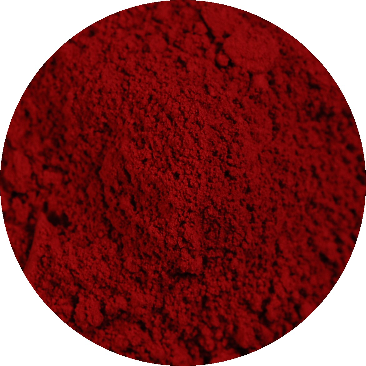 carmine